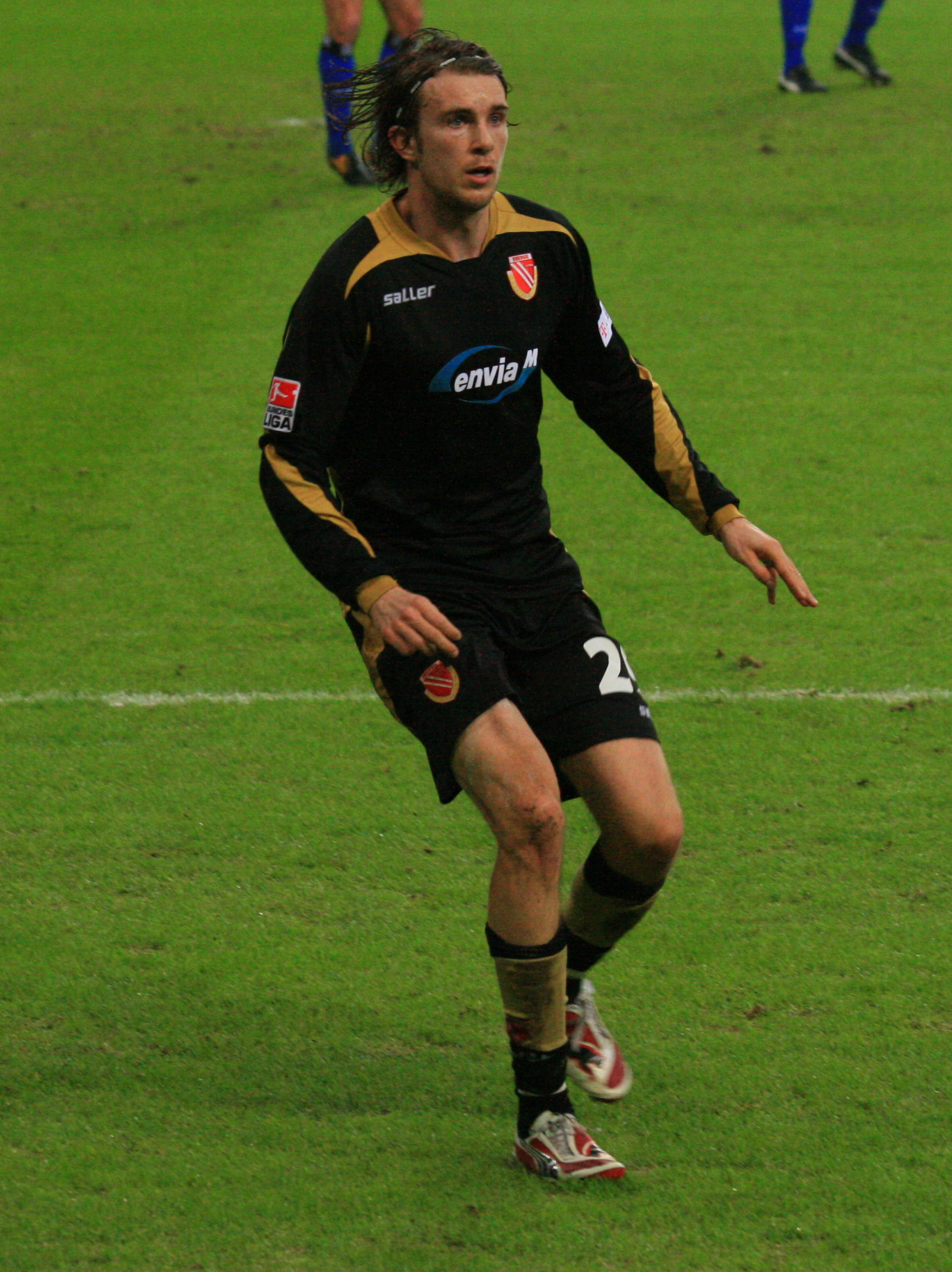 Dennis Sørensen pictured playing for Energie Cottbus.